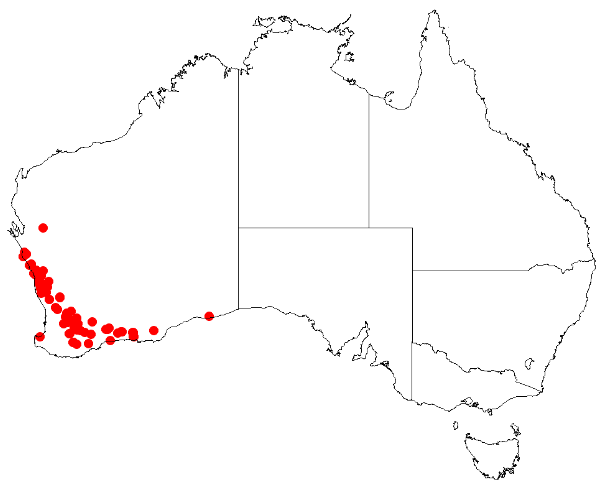 Desmocladus parthenicus Occurrence data downloaded from Australasian Virtual Herbarium on 24 January 2019 using